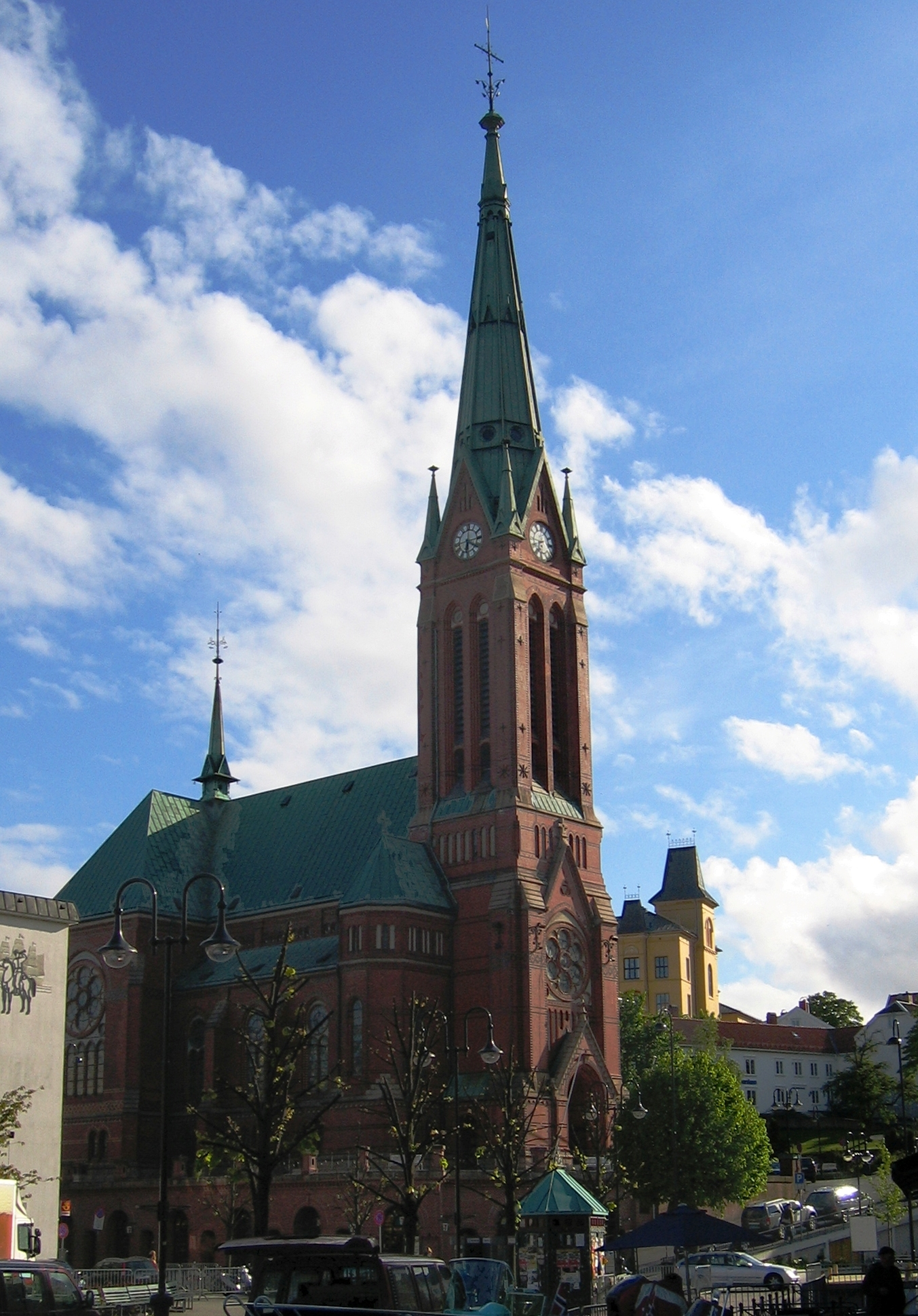 Trefoldighetskirken i Arendal